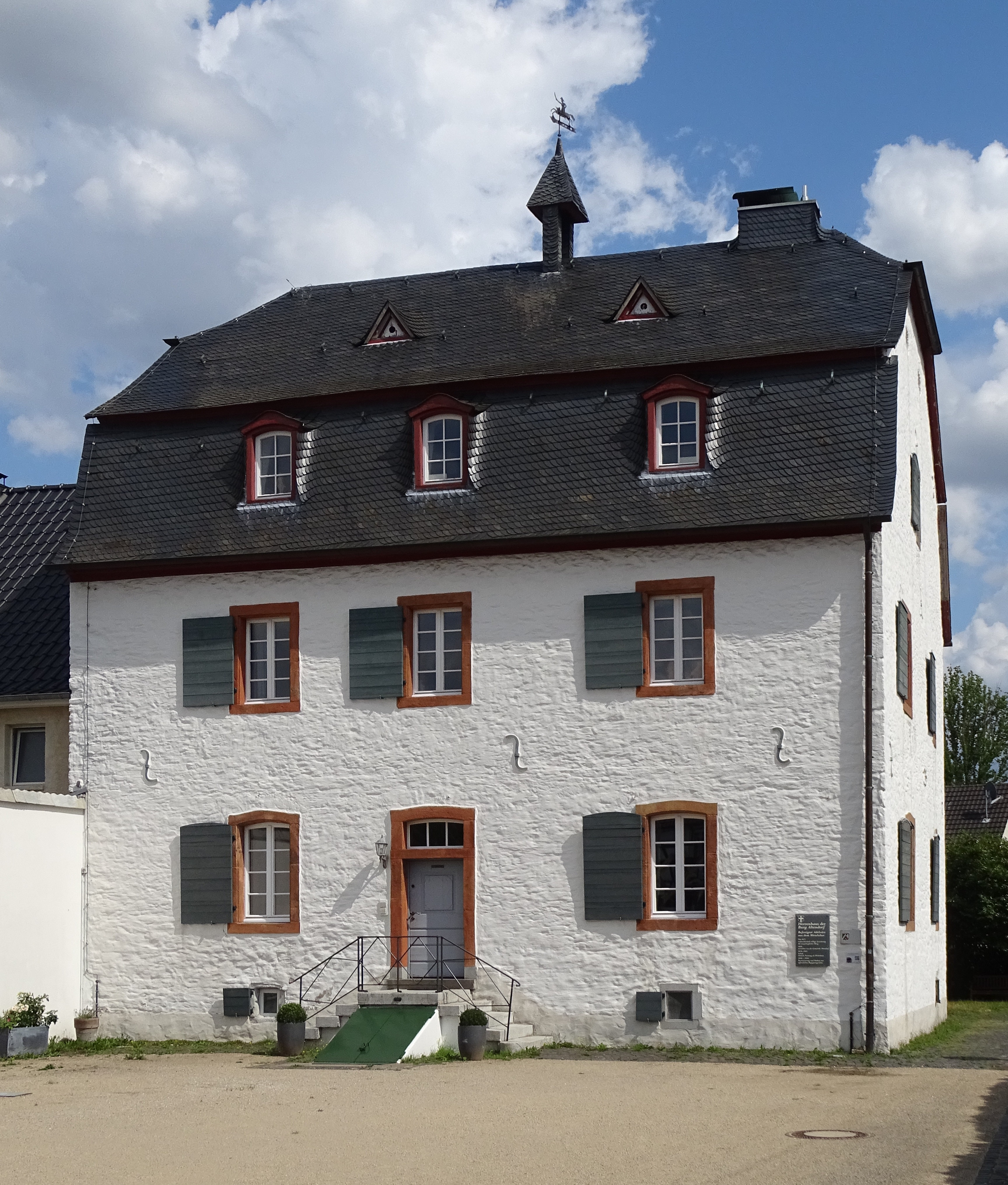 Manor house of the former Castle Altendorf in Altendorf, Burgstraße 5.